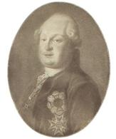 Portrait of Count Palatine Karl II August Christian of Birkenfeld-Zweibrücken